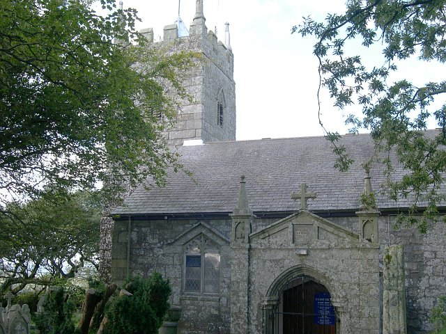 St Dennis Parish Church. The porch and tower are thought to date from the 14th century. Extensive renovations were carried out in 1847 and in the mid 1980's after a fire. The church tower has a set of 8 bells. The photographer can attest to the high quality of both bells and bellringers.